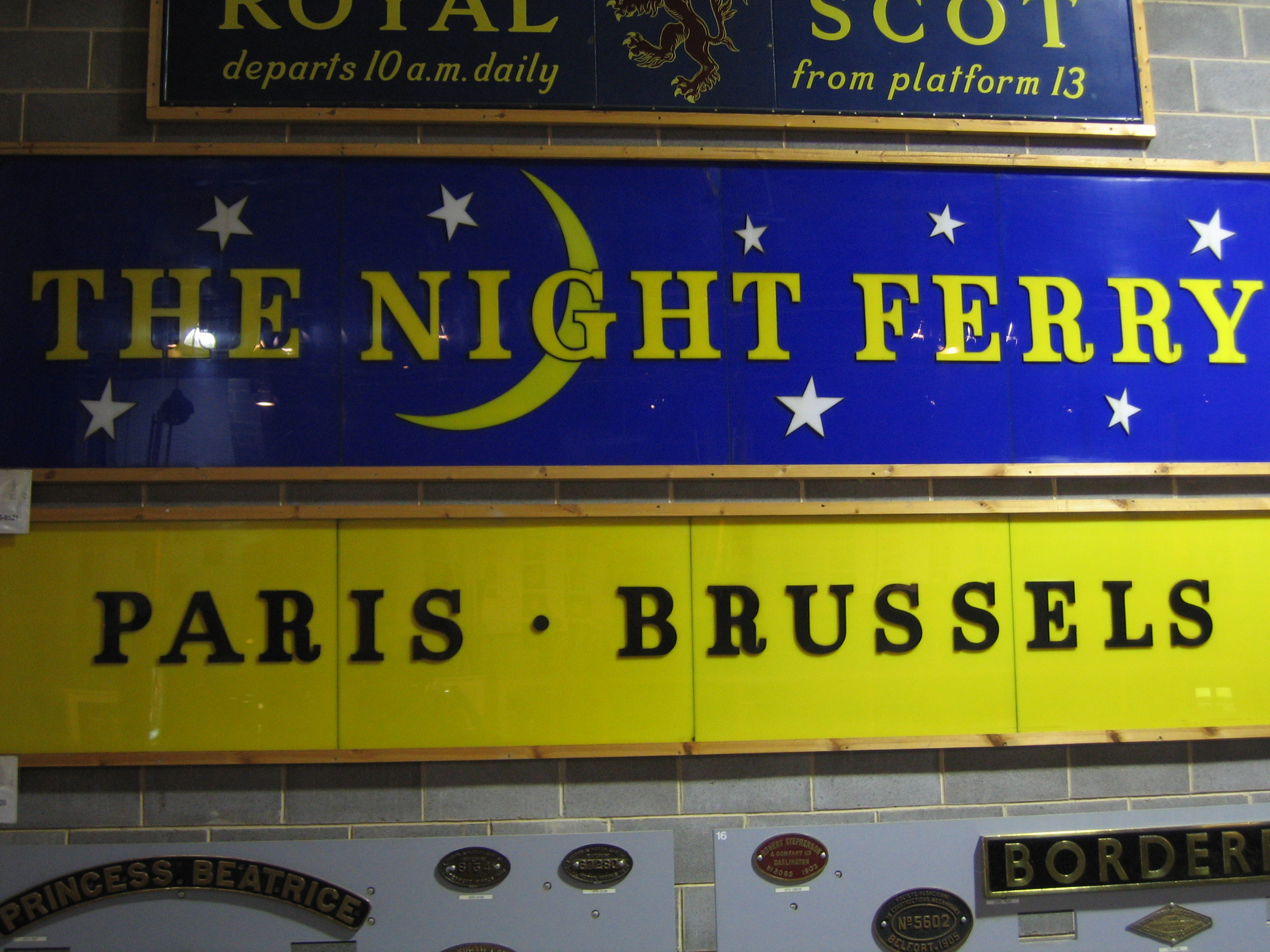 Signs indicating Night Ferry service. Exhibits in National Railway Museum, York